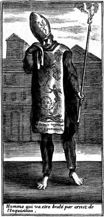 The Auto de fe used in Voltaire's Candide, or Optimism without relation to figure of Pangloss. This engraving was first used 1687 in Gabriel Dellons Rélation de L'inquisition de Goa, 72 years before the publication of Candide.